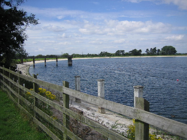 Shustoke reservoir. The west end of Shustoke reservoir. This reservoir boasts a circular walk and a car park for walkers to use.